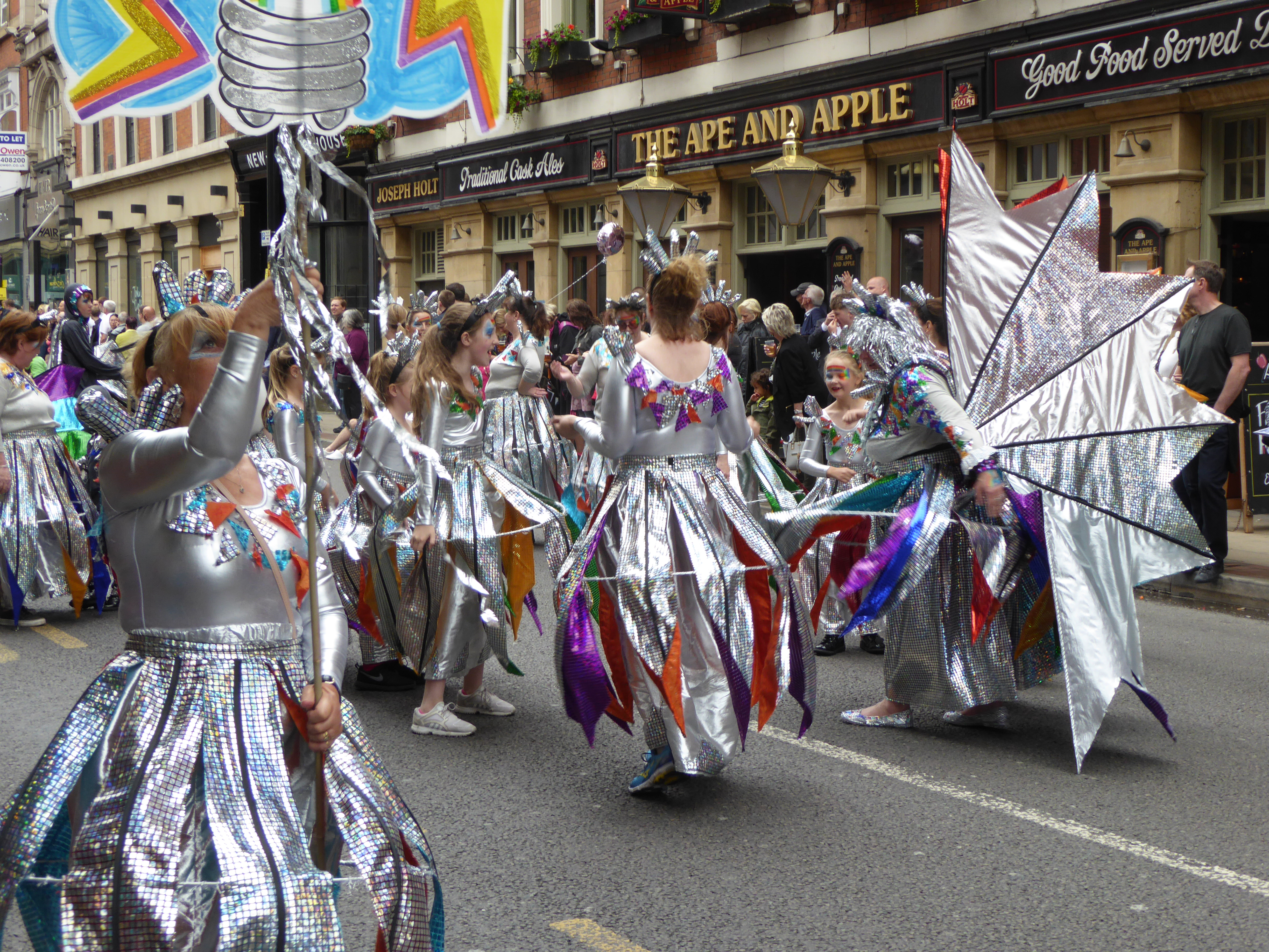 Manchester Day, John Dalton Street, Manchester, England, June 2016